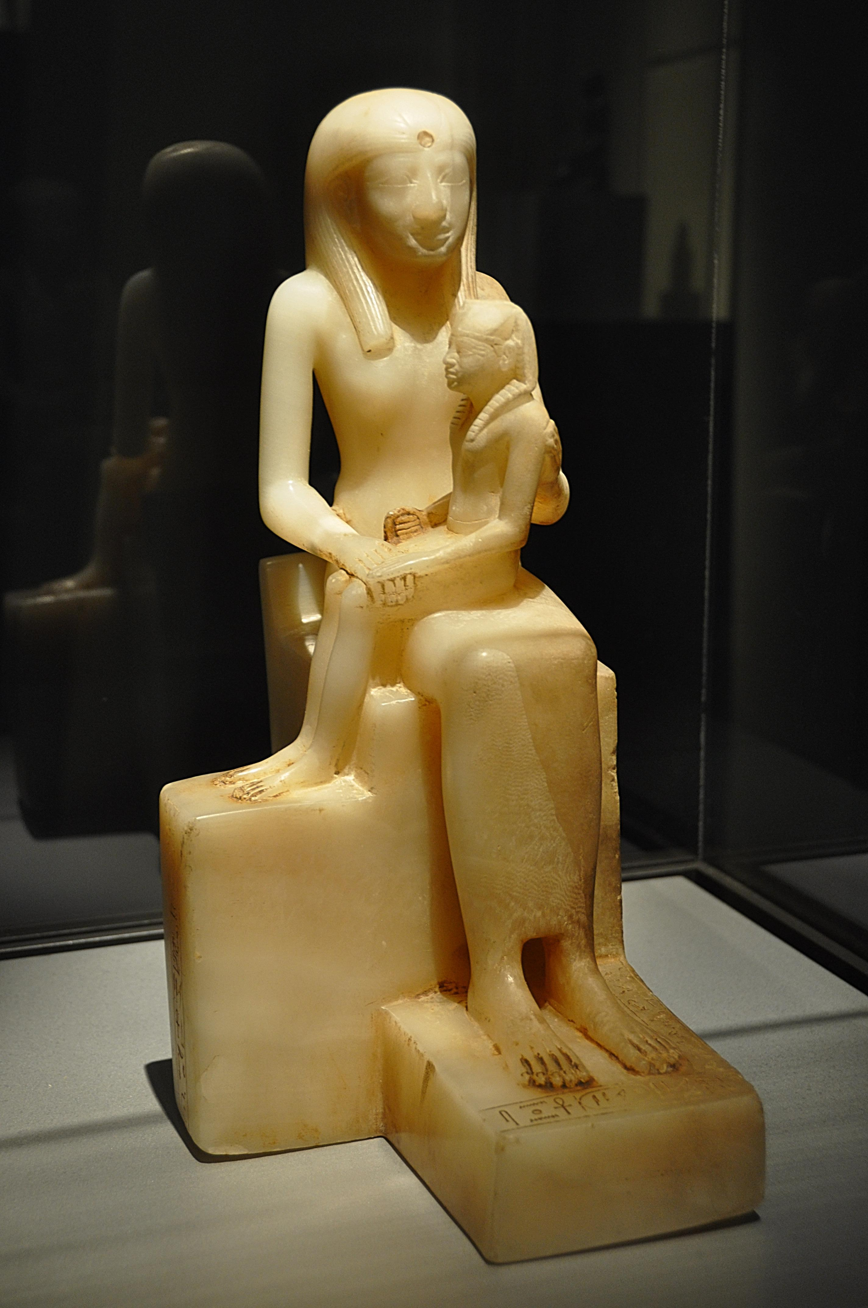 Statuette of Queen Ankhnes-meryre II and her Son, Pepy II, ca. 2288-2224 or 2194 B.C.E. Egyptian alabaster, 15 7/16 x 9 13/16in. (39.2 x 24.9cm). Brooklyn Museum, Charles Edwin Wilbour Fund, 39.119.